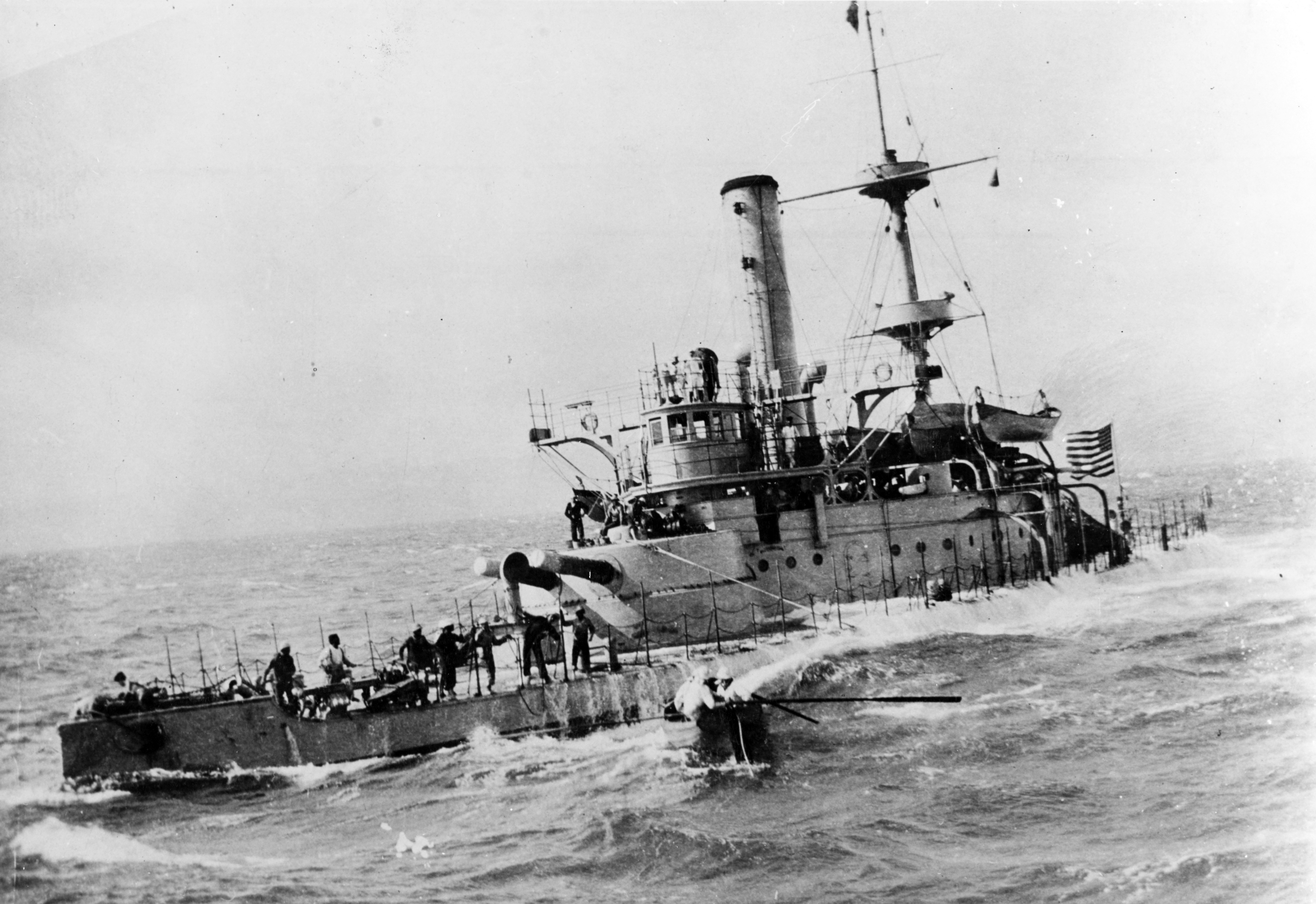 USS Monadnock (BM-3) crossing the Pacific Ocean during the Spanish-American War. Monadnock was one of only two U.S. Navy monitors ever to make the crossing.